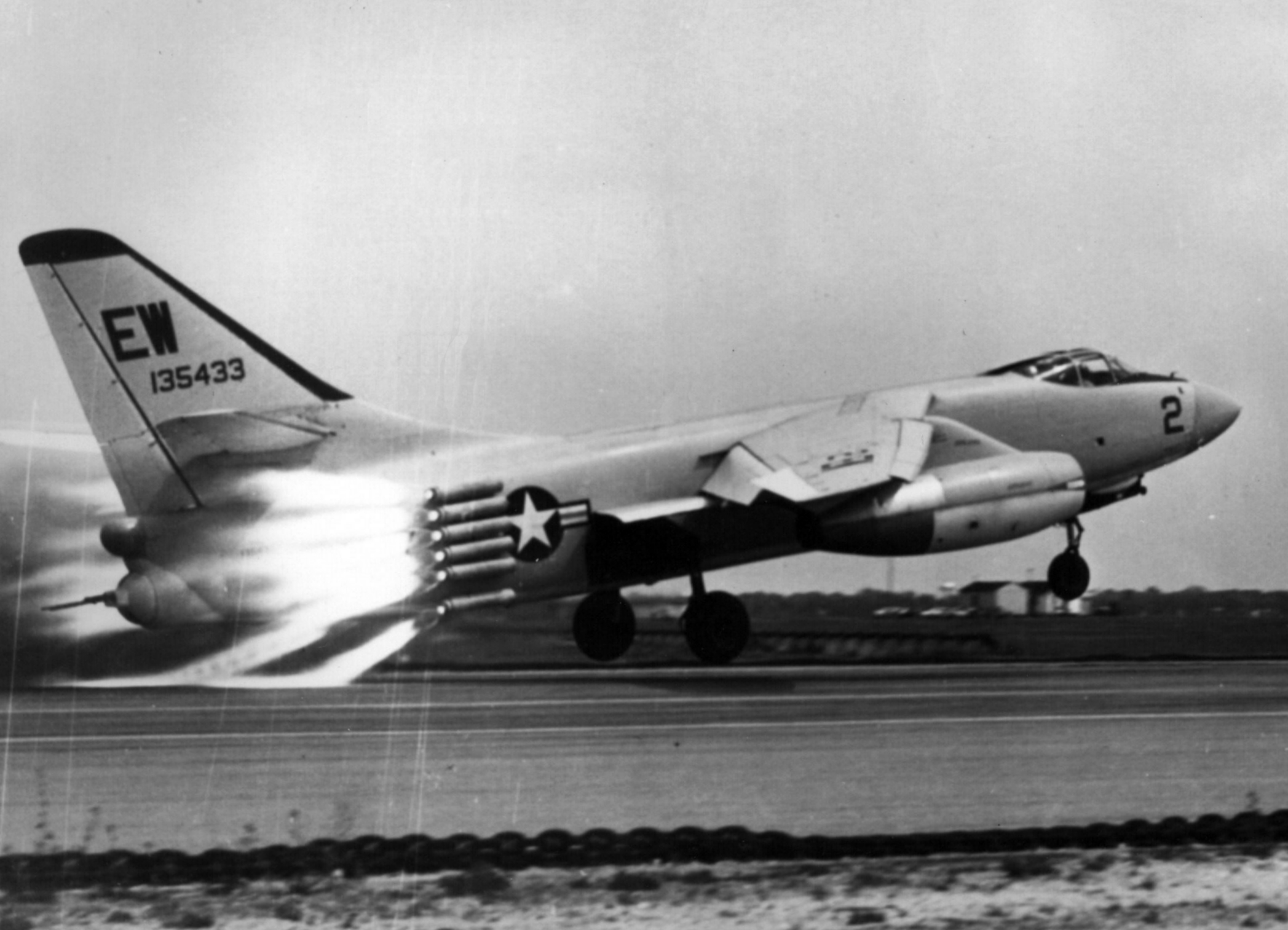 A U.S. Navy Douglas A3D-1 Skywarrior (BuNo 135433) of Heavy Attack Squadron VAH-3 in a jet-assisted take off from the runway at Naval Air Station Jacksonville, Florida (USA).